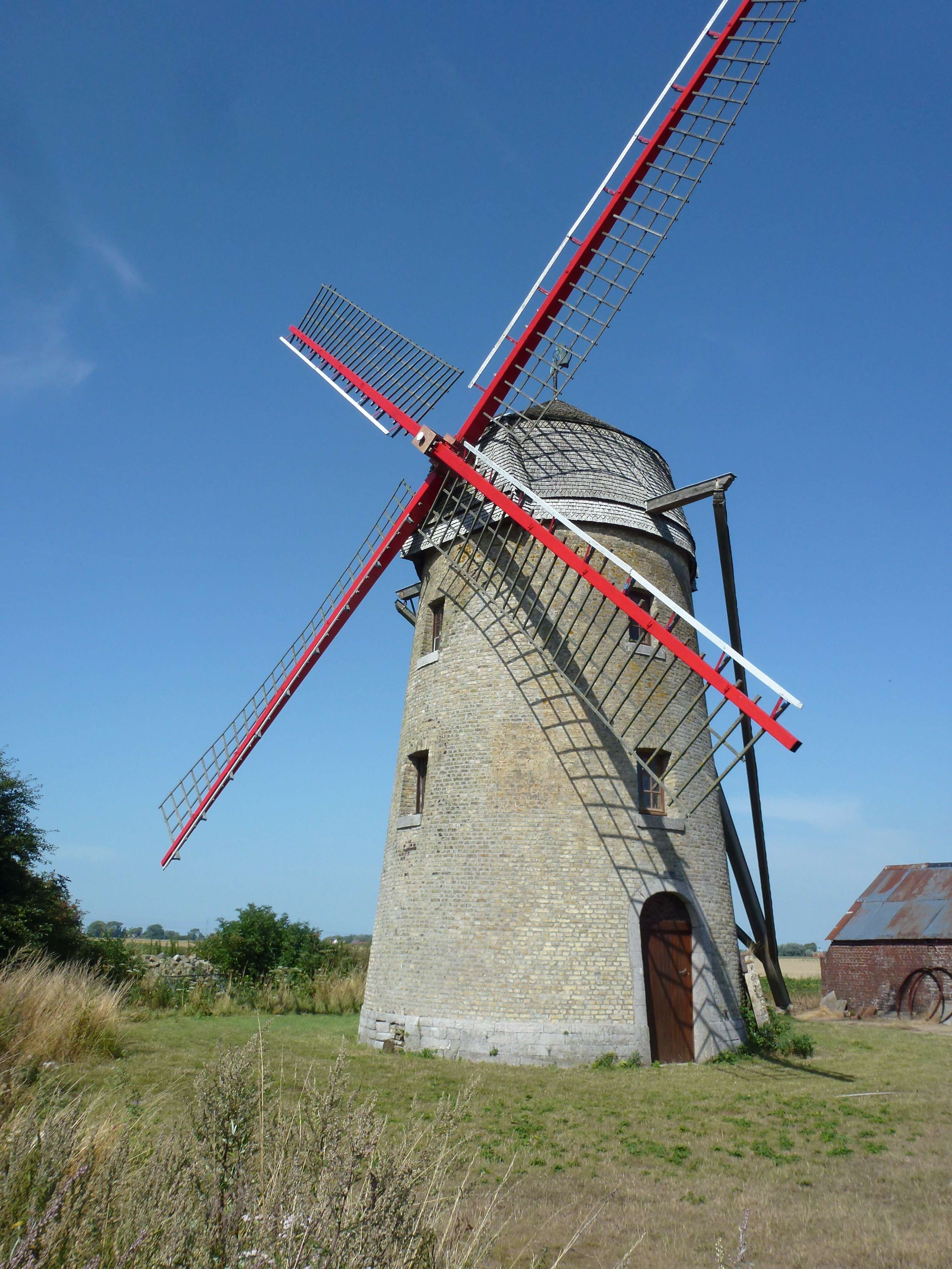 Guemps (Pas-de-Calais) moulin à vent